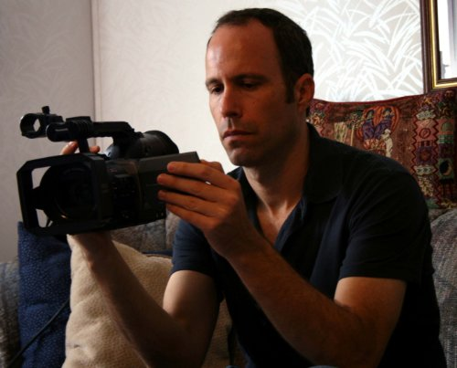 An image of filmmaker Boaz Dvir.